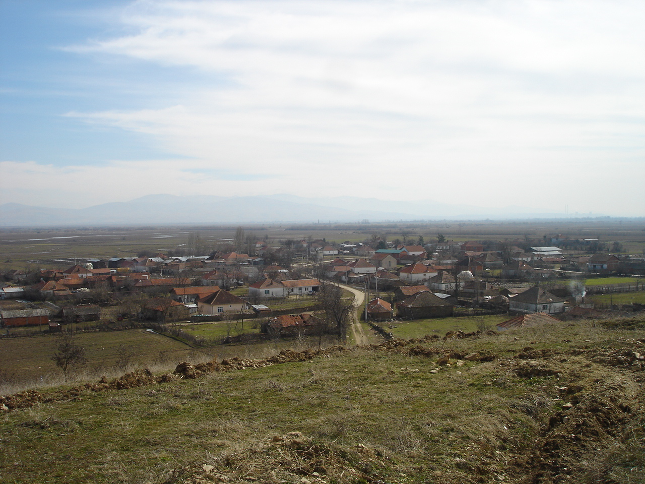 village of Vasharejca, near Bitola, Macedonia